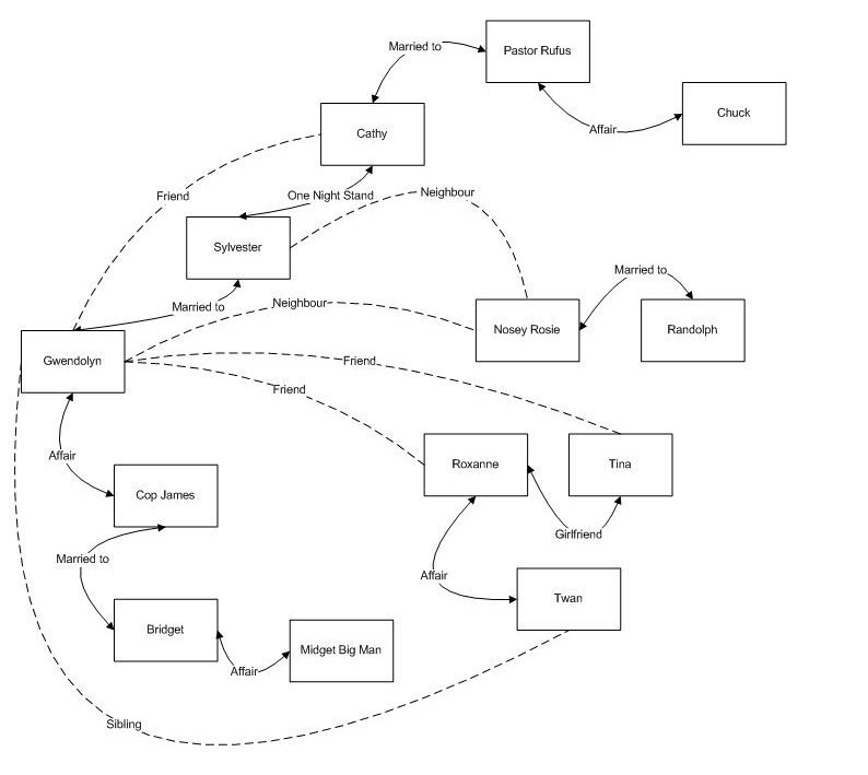 Description of relationships in R. Kelly's "Trapped in the Closet" hip-hopera series